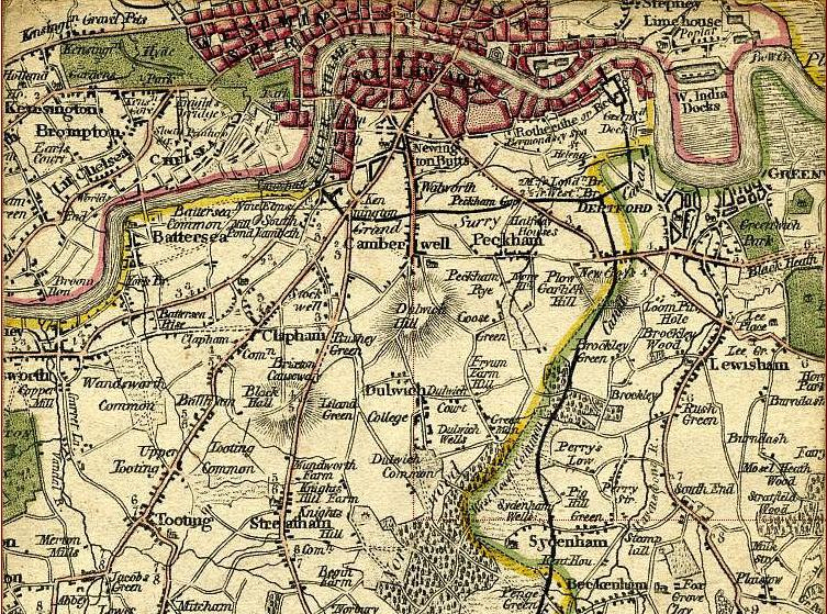 1800 Map showing what is now South London, including Kennington, Camberwell, Peckham, Clapham, Brixton, Stockwell, Streatham Hill, Tooting, Dulwich, Brockley, Lewisham and Deptford